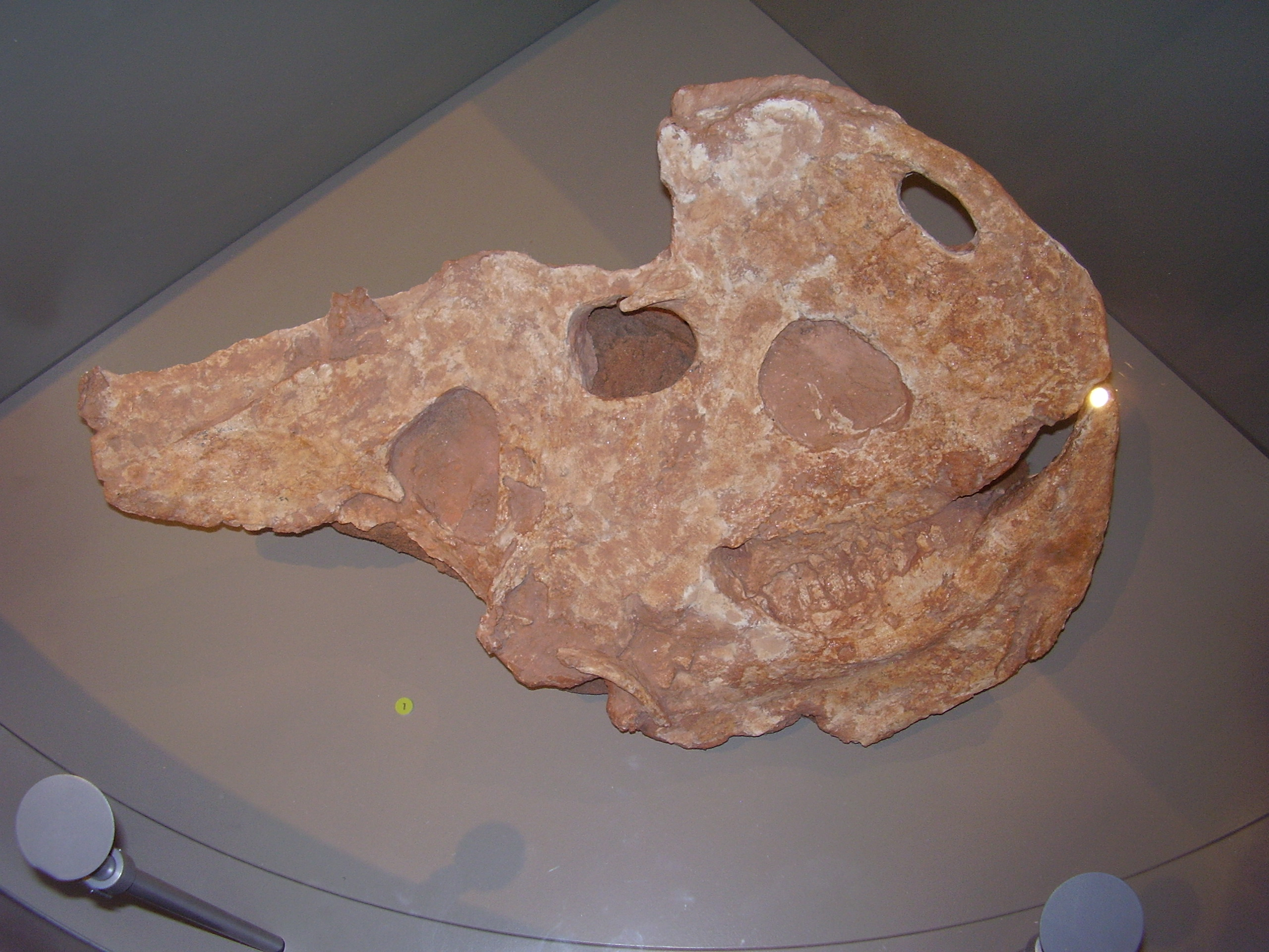 Protoceratops andrewsi skull in Brussels Natural history museum.